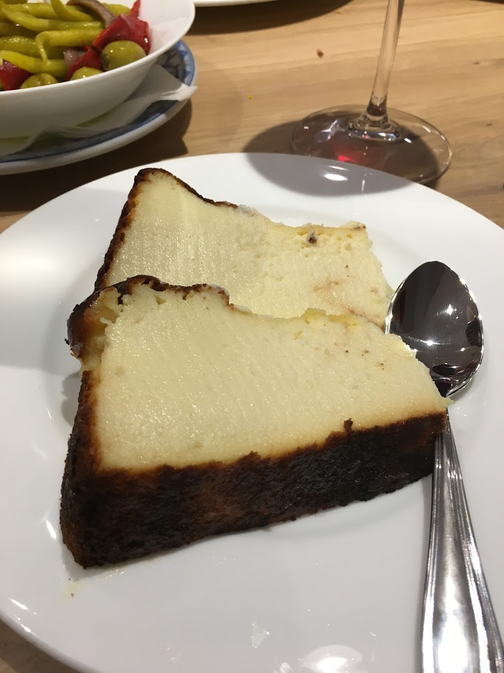 Cheesecake in restaurant "La Viña" in San Sebastián, Gipuzkoa province, Basque Country, Spain.